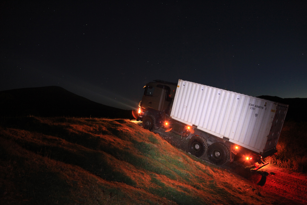 Transport Corps Ex 2010 in Glen of Imall